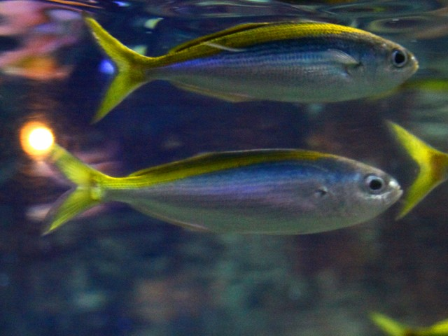 In this photo, I was taken by the Enoshima Aquarium.（2014.2.26)